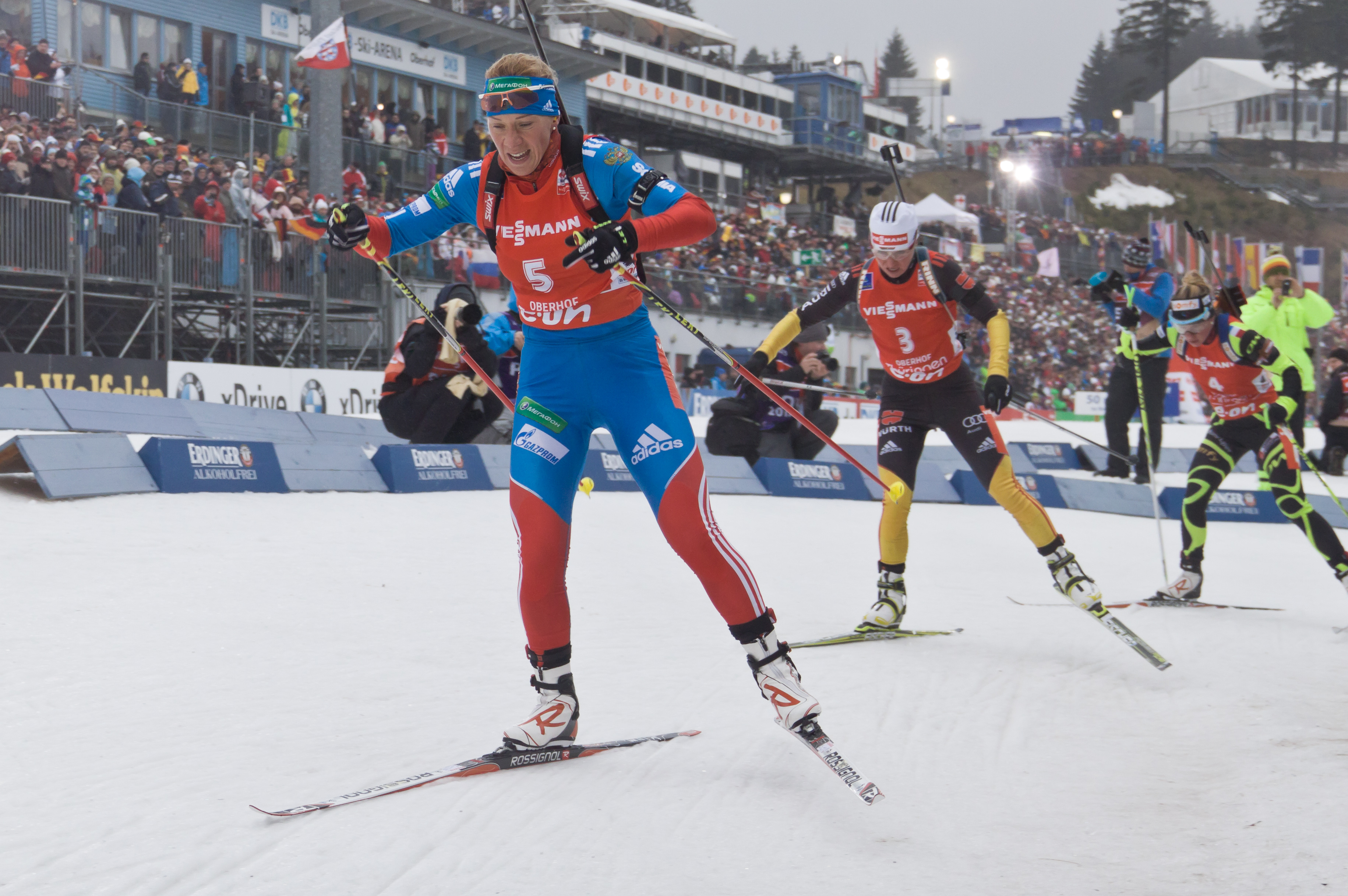 Biathletes Olga Zaitseva, Andrea Henkel and Marie Dorin Habert in the world cup pursuit race in Oberhof.